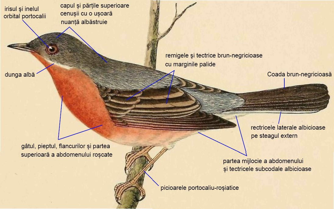 Sylvia cantillans